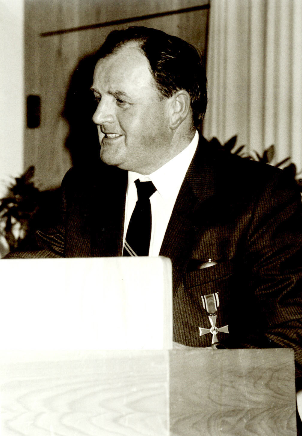 Friedrich Wilhelm Schnitzler 1983 - Order of Merit of the Federal Republic of Germany